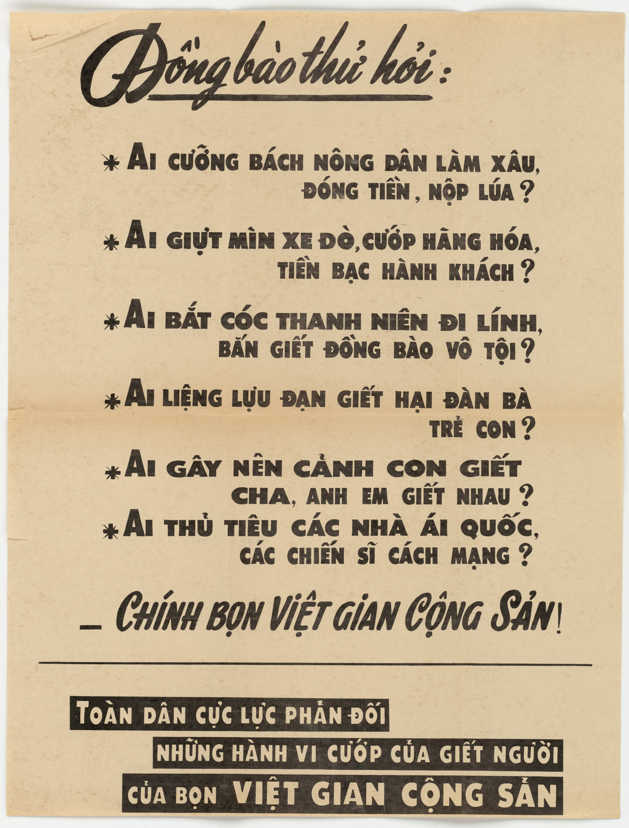 Propaganda slogans for the anti-communist Open Arms Program during the Vietnam War.